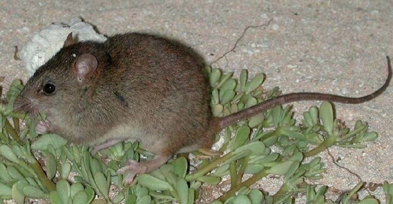 Bramble cay melomys Melomys rubicola. In 2016 declared extinct on Bramble cay, where it had been endemic, and likely also globally extinct, with habitat loss due to climate change being the root cause.